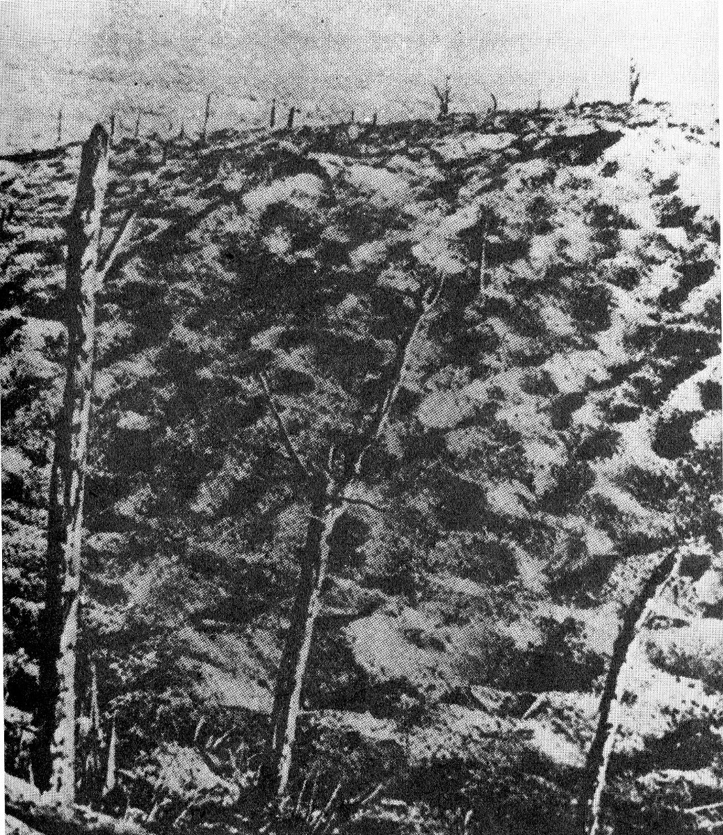 The landscape after battle of Verdun